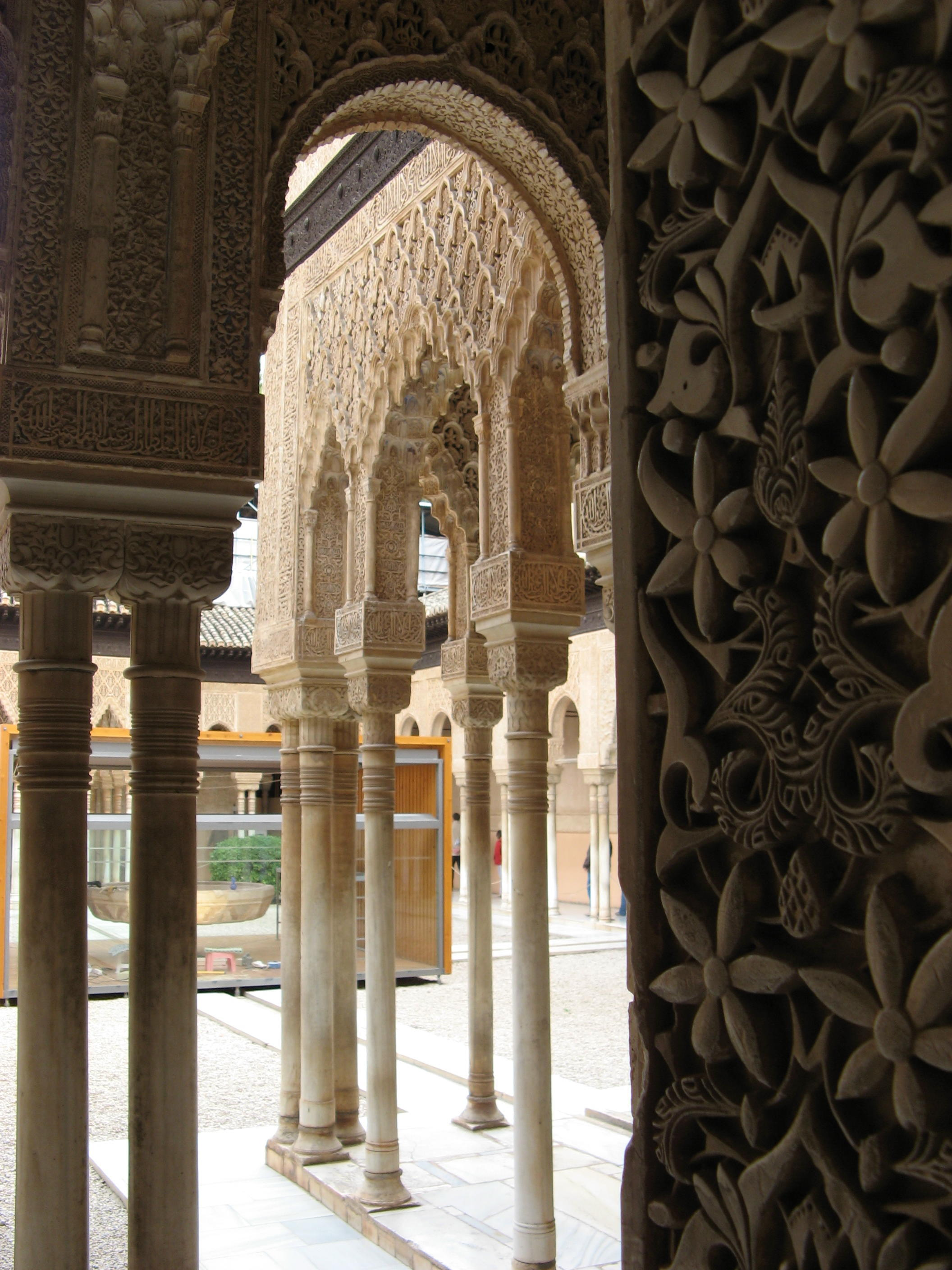 Patio de los Leones / Court of the Lions / Löwenpalast (1394-1391)